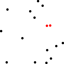 Closest pair of points shown in red.